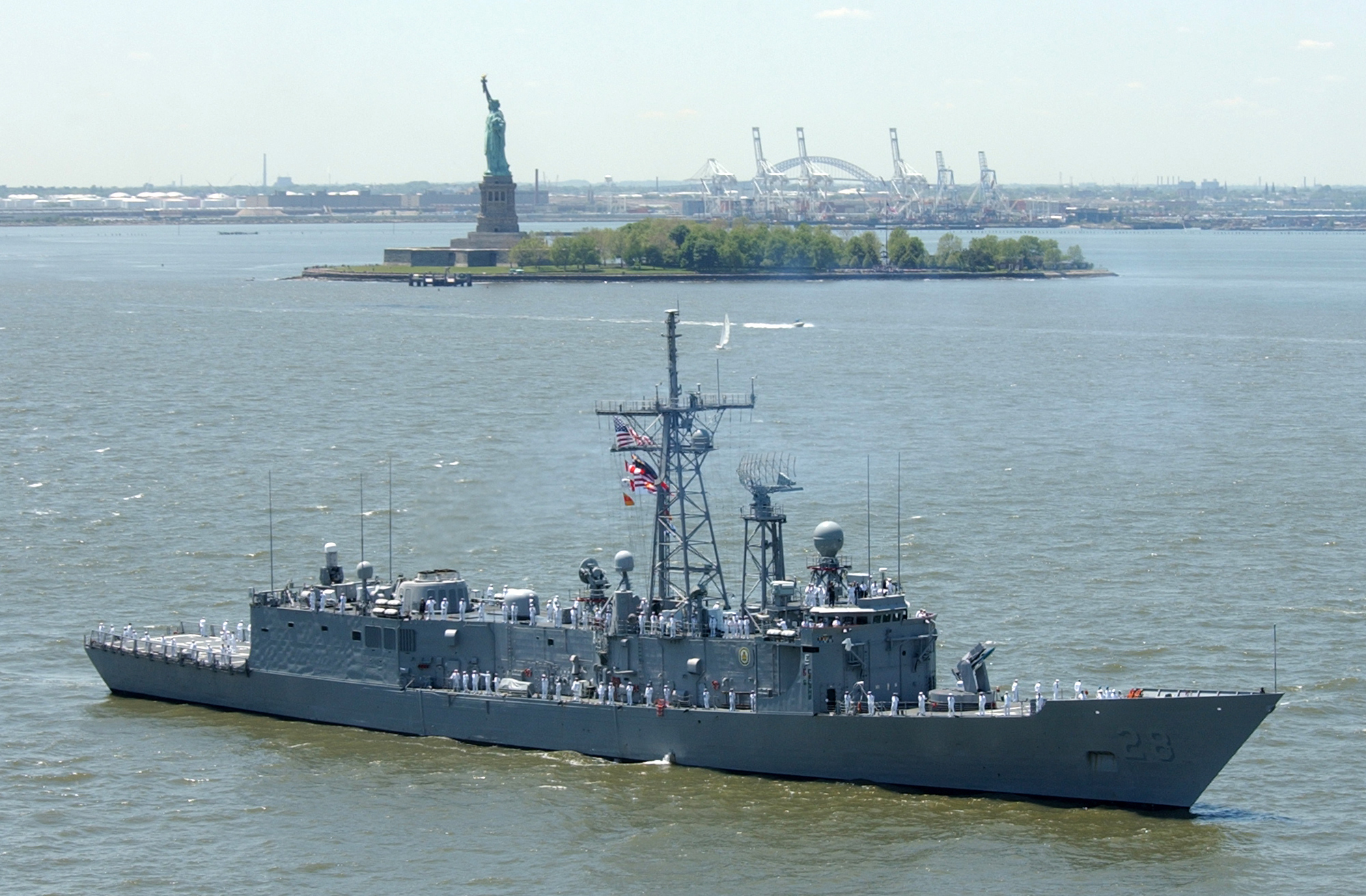 New York City (May 22, 2002) — The guided missile frigate USS Boone (FFG-28) sails past the Statue of Liberty in the Hudson River during the kickoff of Fleet Week 2002. More than 6000 Sailors, Marines, and Coast Guard personnel aboard 22 ships sailed into New York for the 15th Annual Fleet Week celebration.